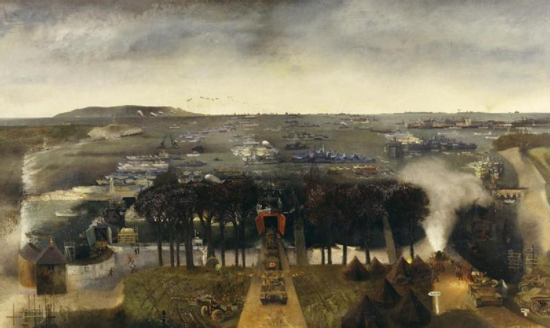 Preparations for D-day image: A coastal scene looking out to sea with an island on the left horizon. In the central foreground tanks line up for loading on board ship, through gaping red metal doors opening into a dark hold. On the right there are seven bell-tents, more tanks and a small group operating a smoke-screen generator. Beyond a central bank of trees the sea is covered with receding lines of ships in camouflage colours with a line of barrage balloons in the sky on the left. Small boats move between those at anchor and in the centre- right there is a tug-boat pulling a string of bailey-bridge pontoons.